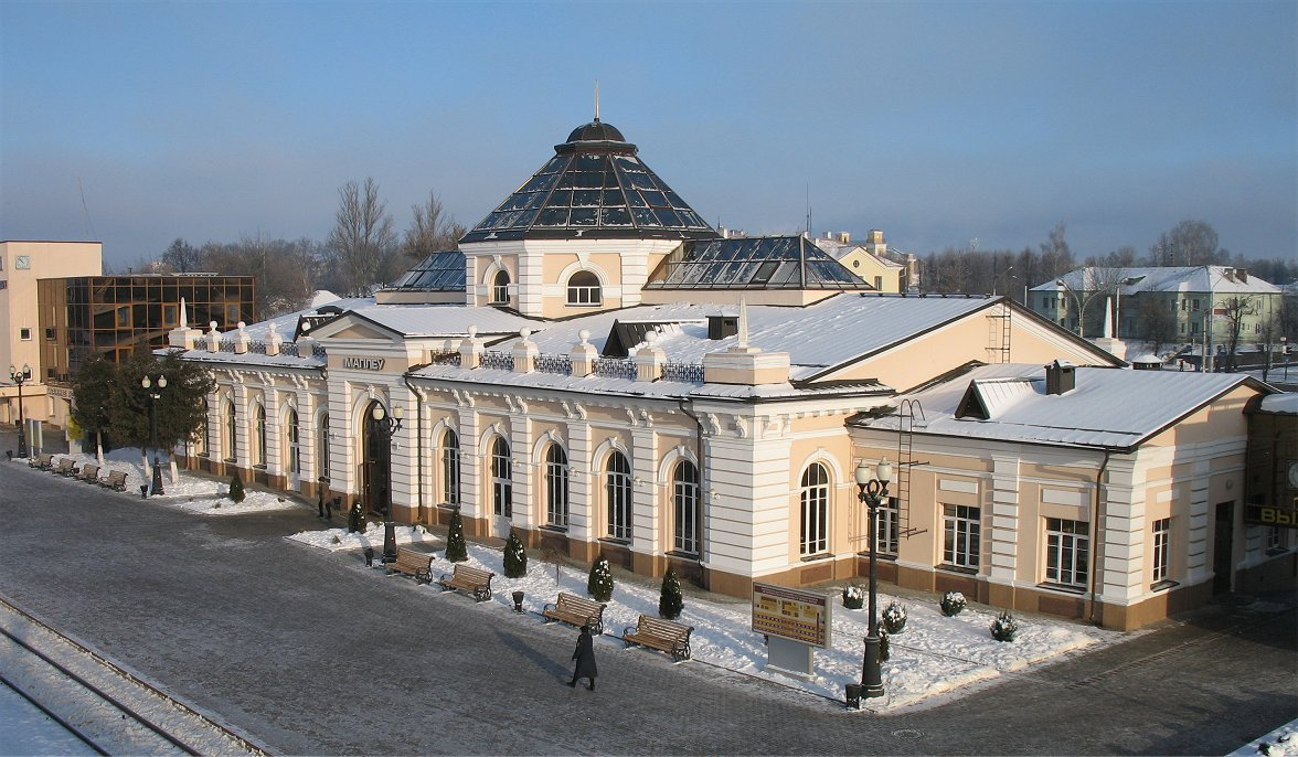 Railway station of Mogiljov (Mahilyow) city in the eastern Belarus.